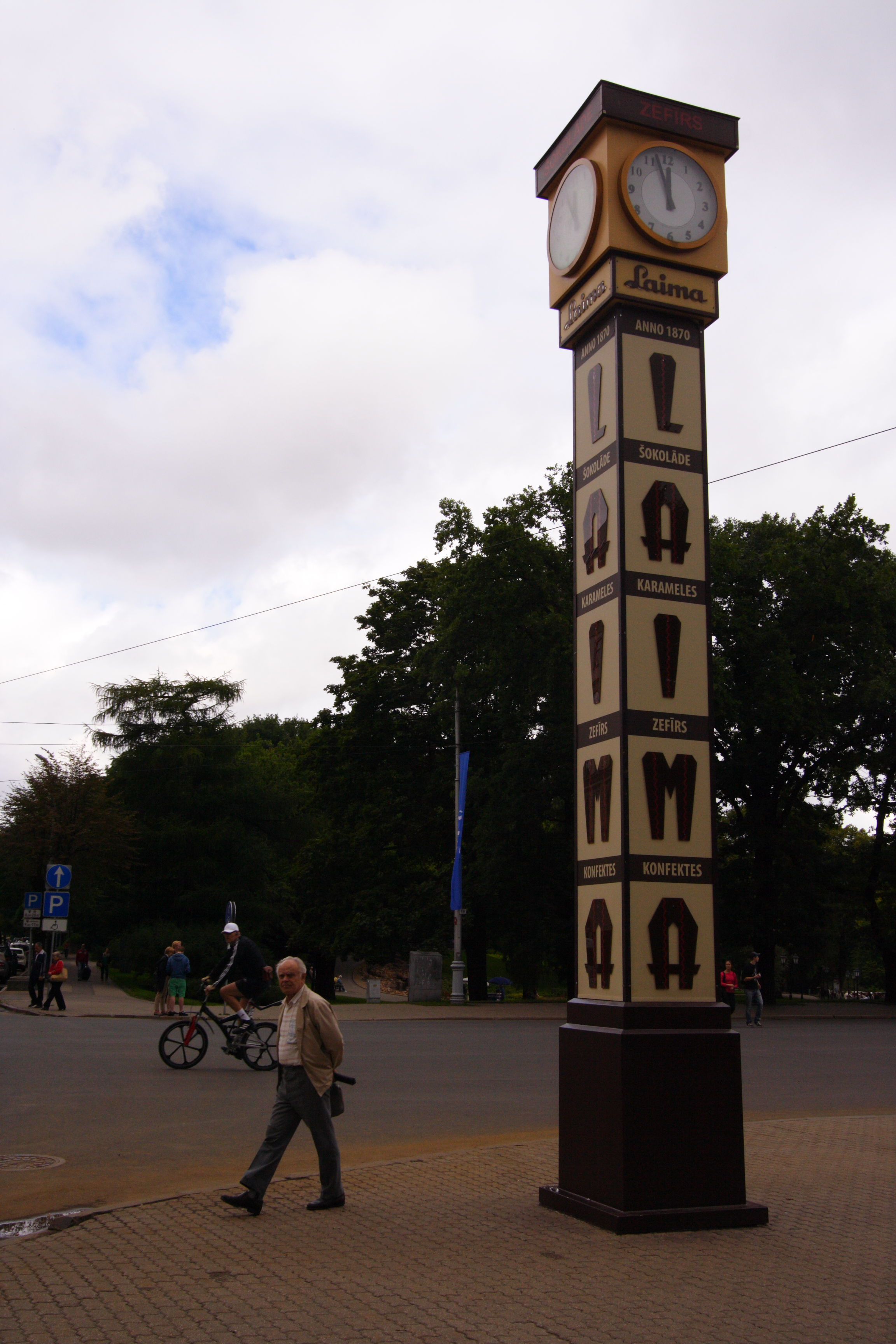 Laima clock in Old Riga